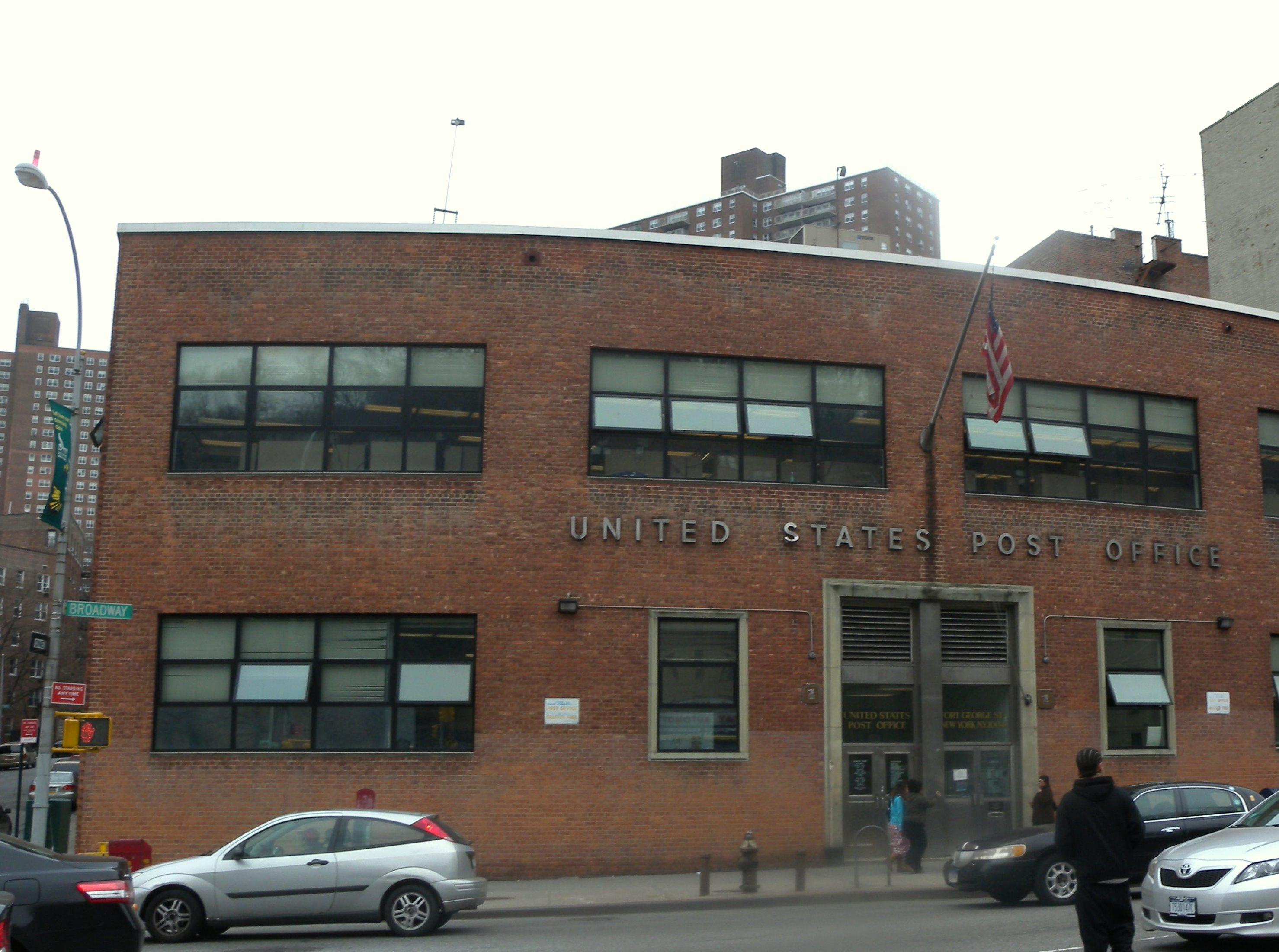 Looking east across Broadway at Fort George Station on a cloudy midday.